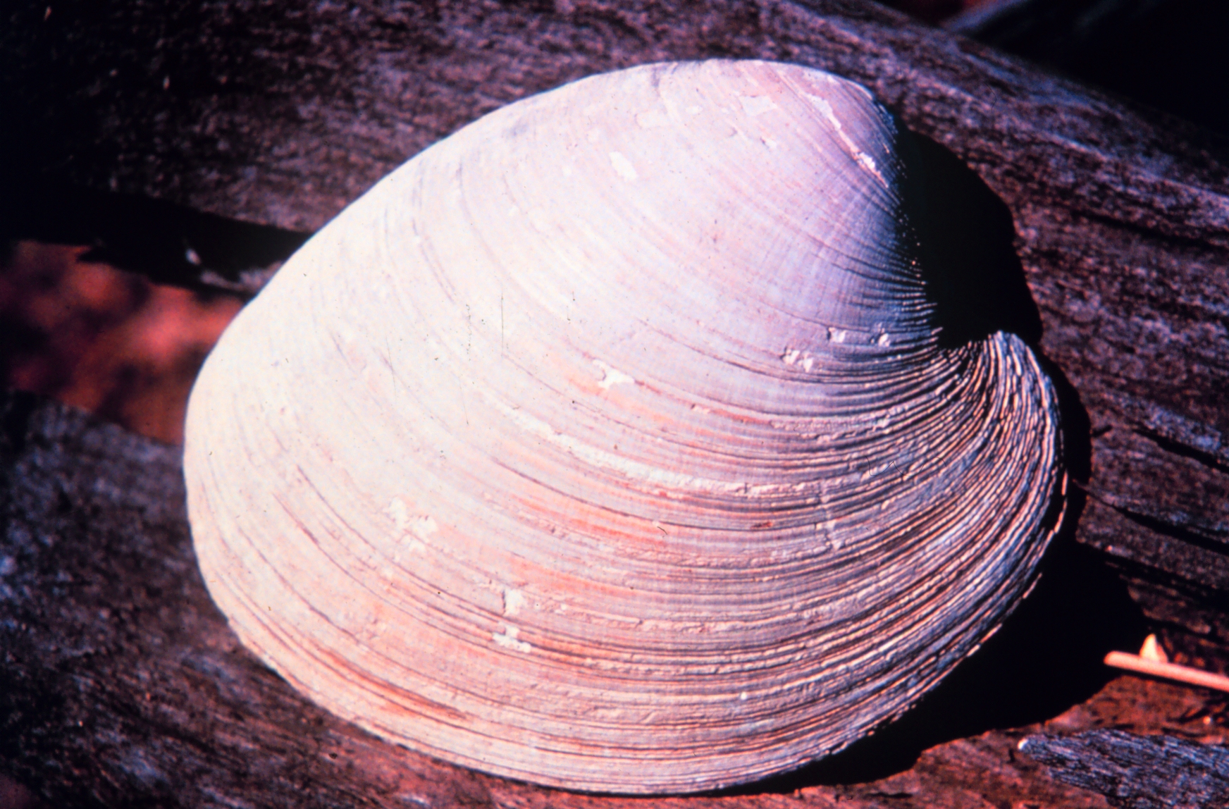 Narragansett Bay National Estuarine Research Reserve Quahog - Mercenaria mercenaria. The quahog clam fishery is the largest in the state of Rhode Island. Narragansett Bay, Rhode Island. 1996 October.